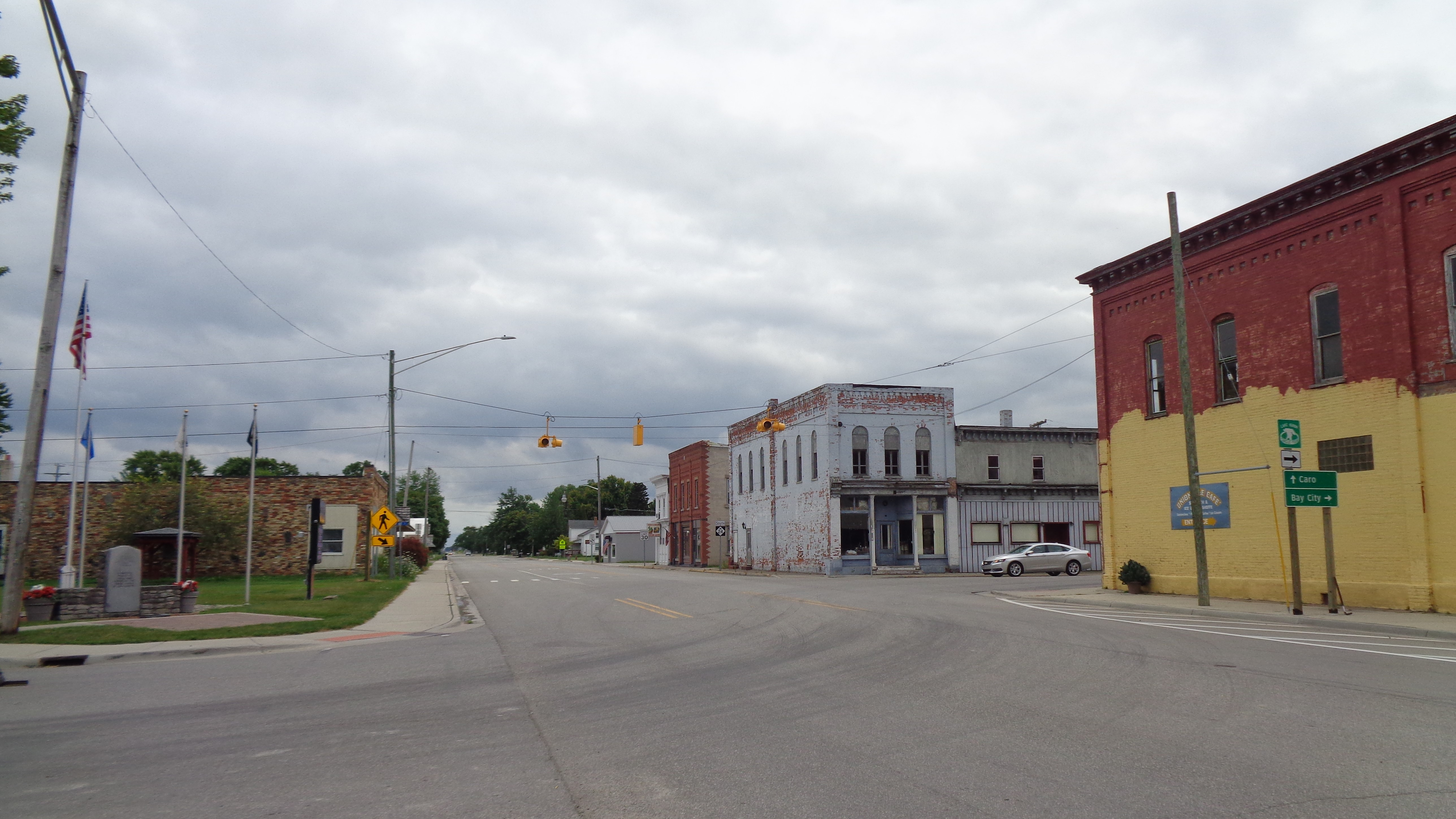 Depicted place: Unionville